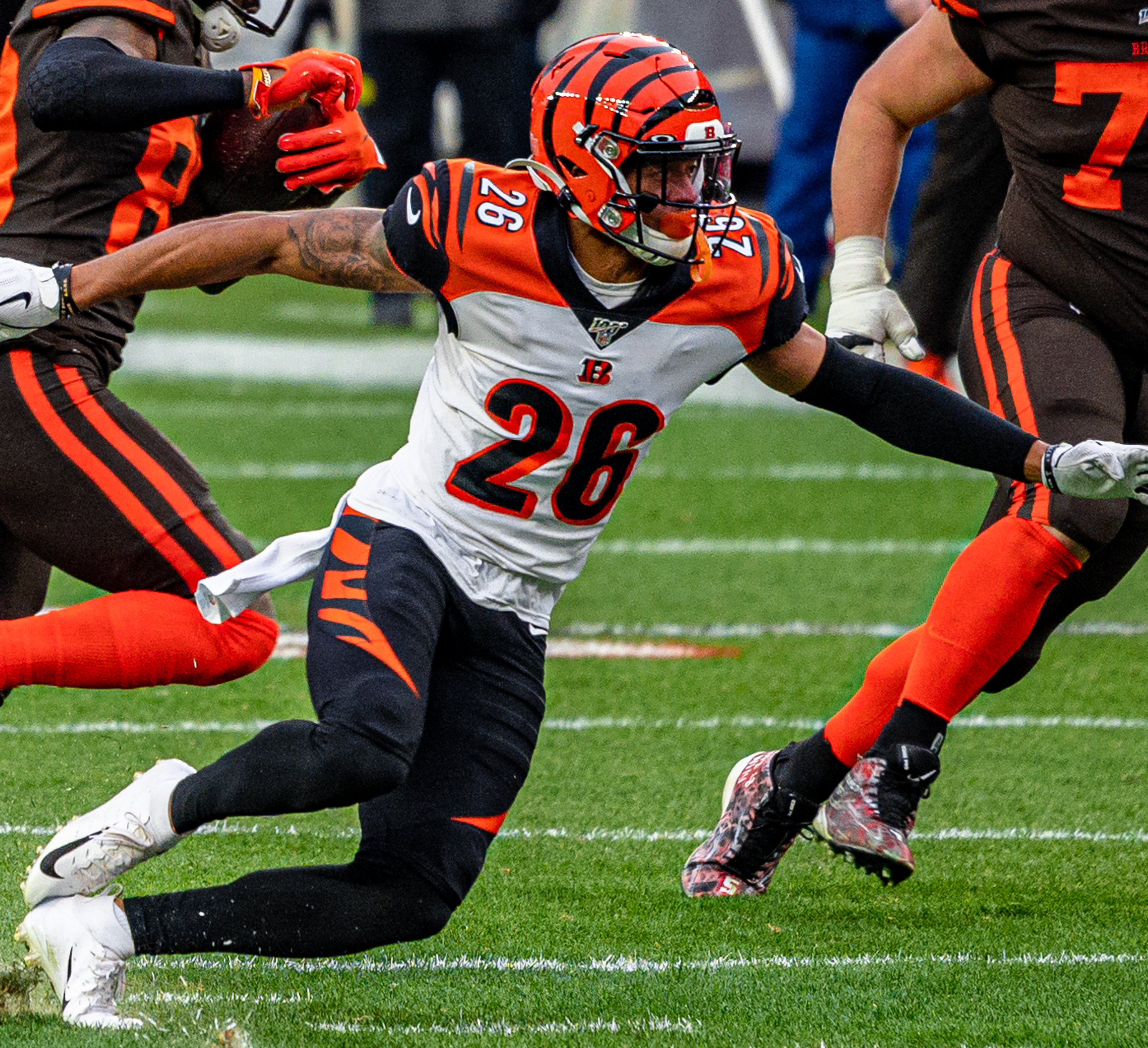 Jarvis Landry and Joel Bitonio